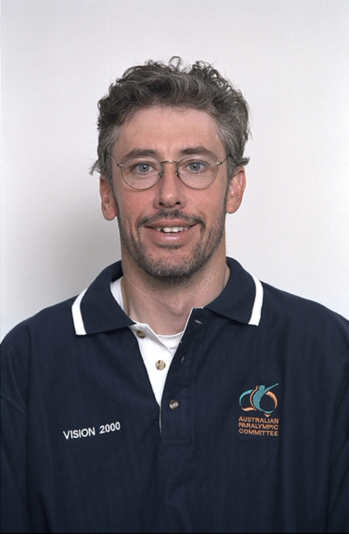 Portrait of Australian sailor Jamie Dunross, 2000 Australian Paralympic Team athlete